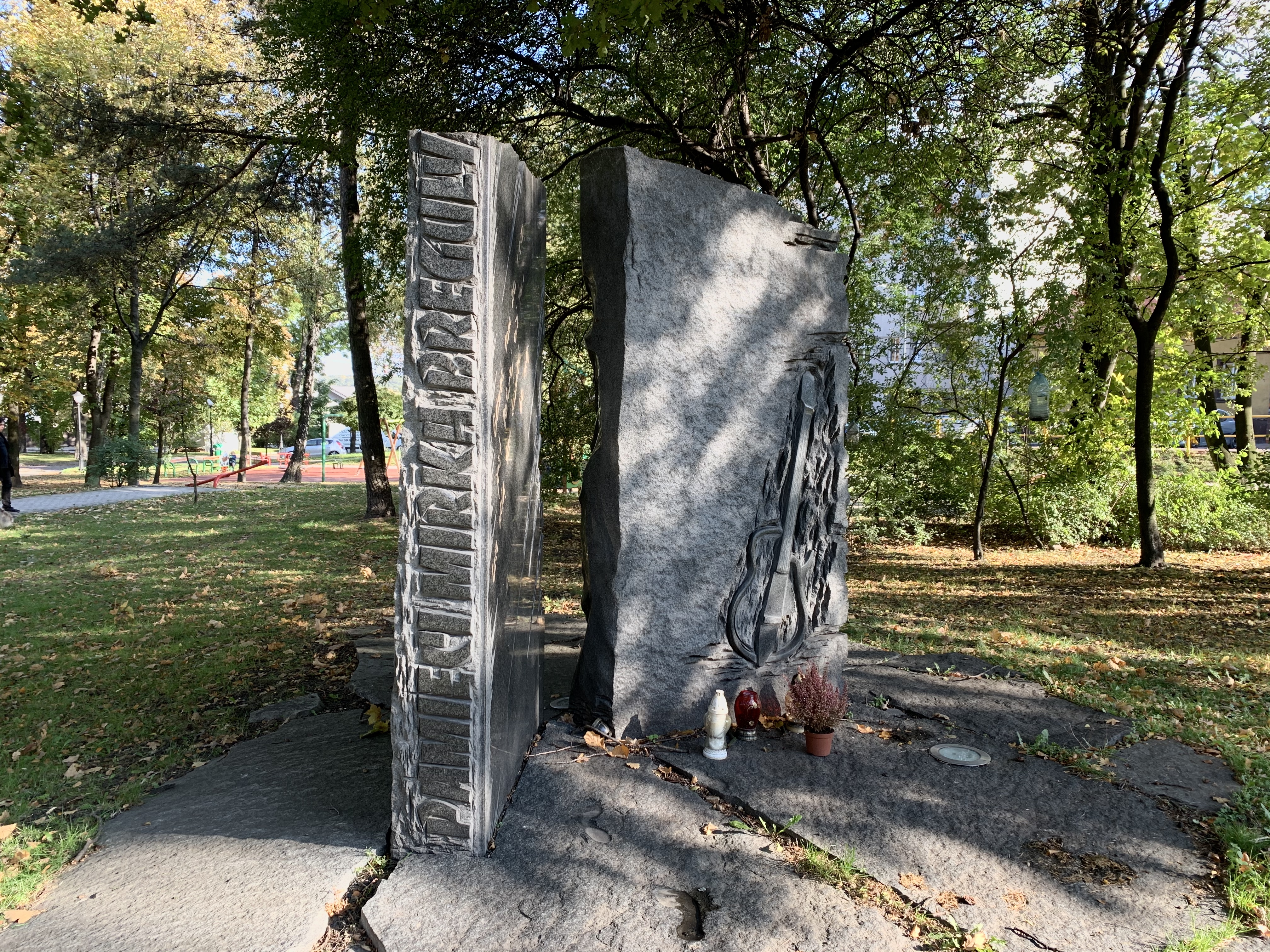 Miroslaw Bregula Monument, Chorzów, Plac Piastowsko Square